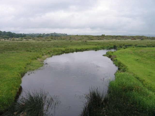 Afon Teifi a Cors Caron / River Teifi and Tregaron Bog, Ceredigion, Wales